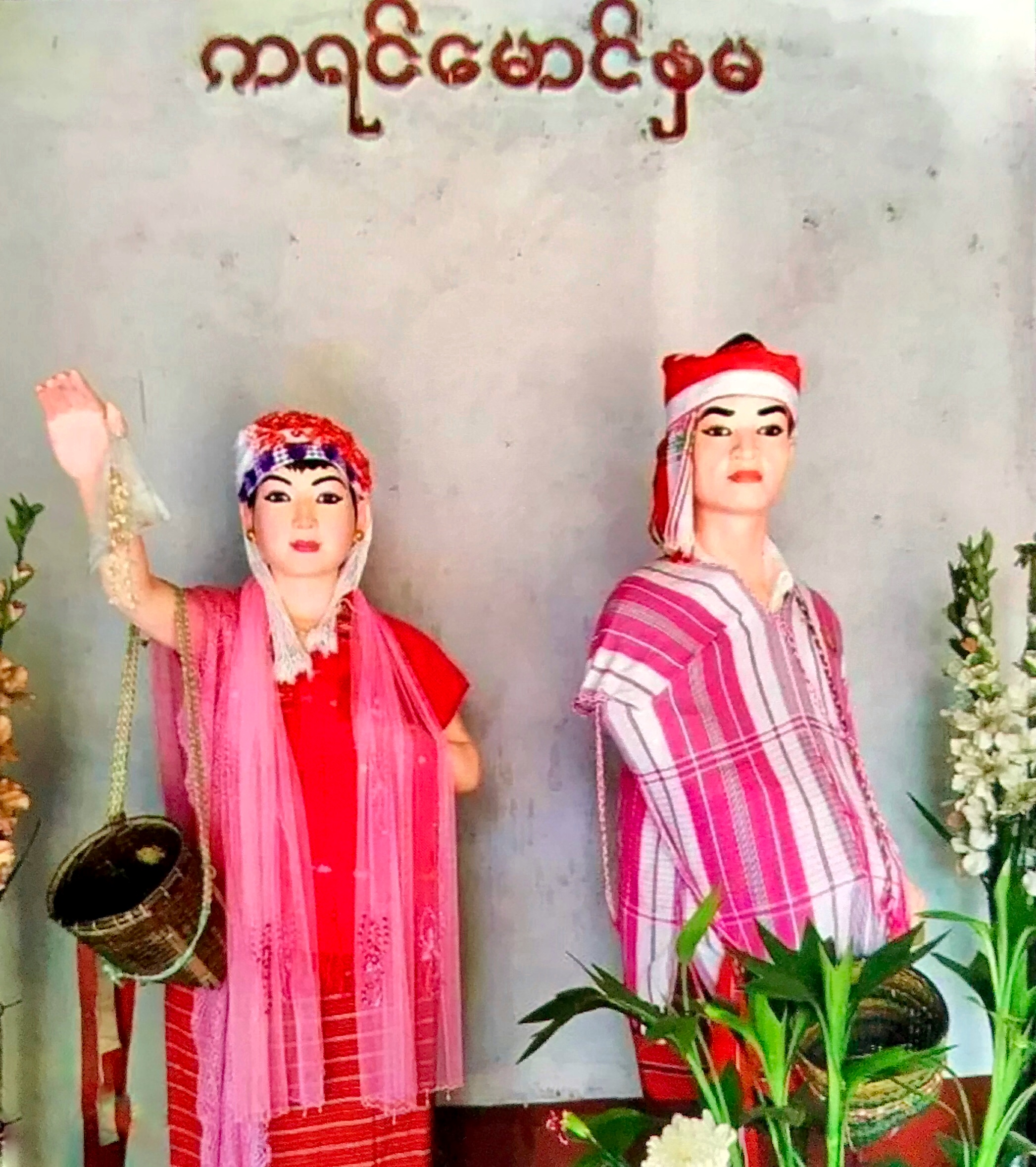 Kayin Maungnama are nats in Burmese legend.